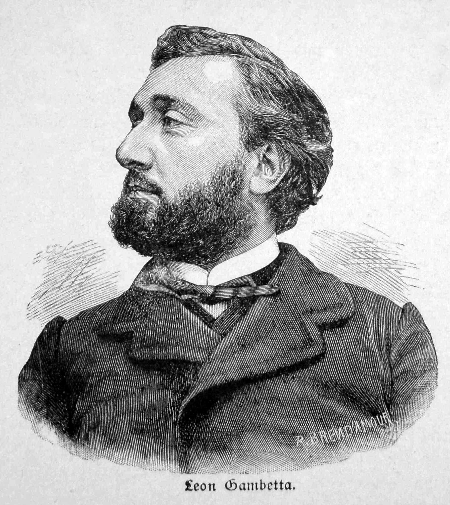 Leon Gambetta